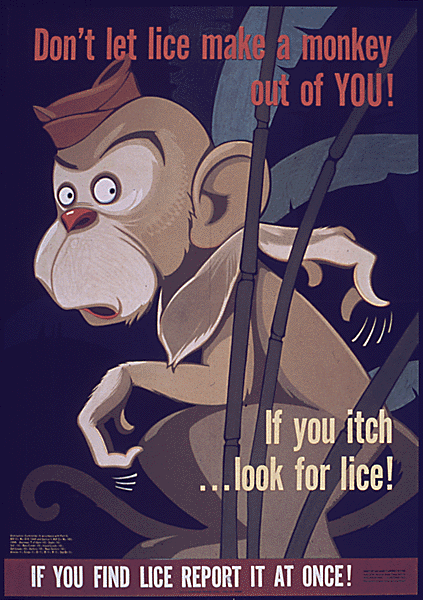 "Don't Let Lice Make a Monkey out of You! If You Itch...Look for Lice! If You Find Lice Report it at Once!"